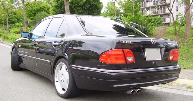 Rare W210 Mercedes-Benz E60 AMG. Photographed in Glendale, California.